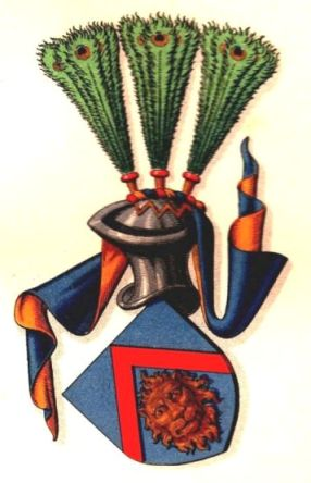 Smør (Leopard) coat of arms by Anders Thiset